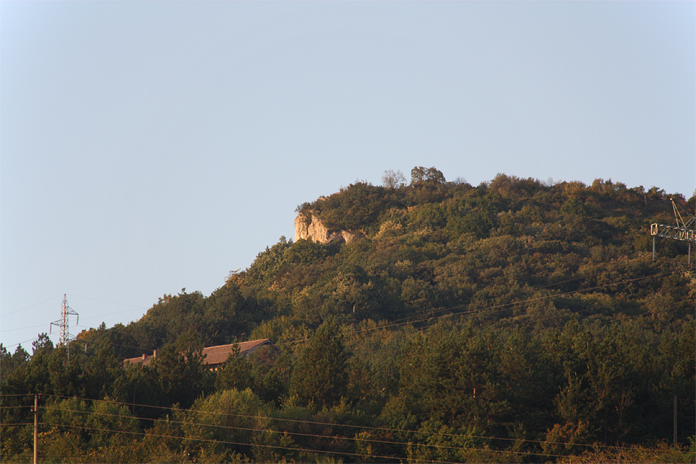 The Stone Hill of Gorna Oryahovitsa